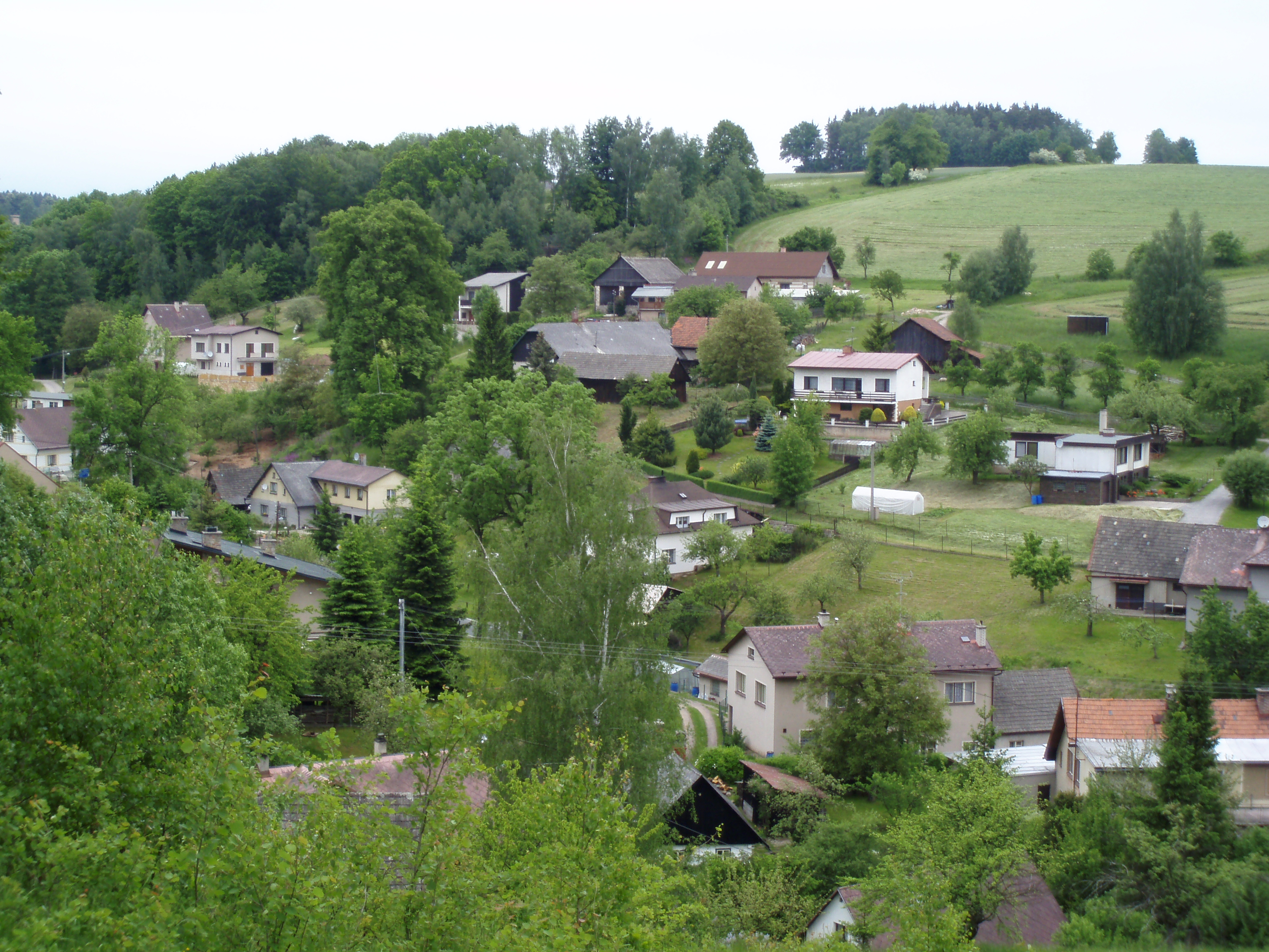 Libňatov (District of Trutnov, Czech Republic)